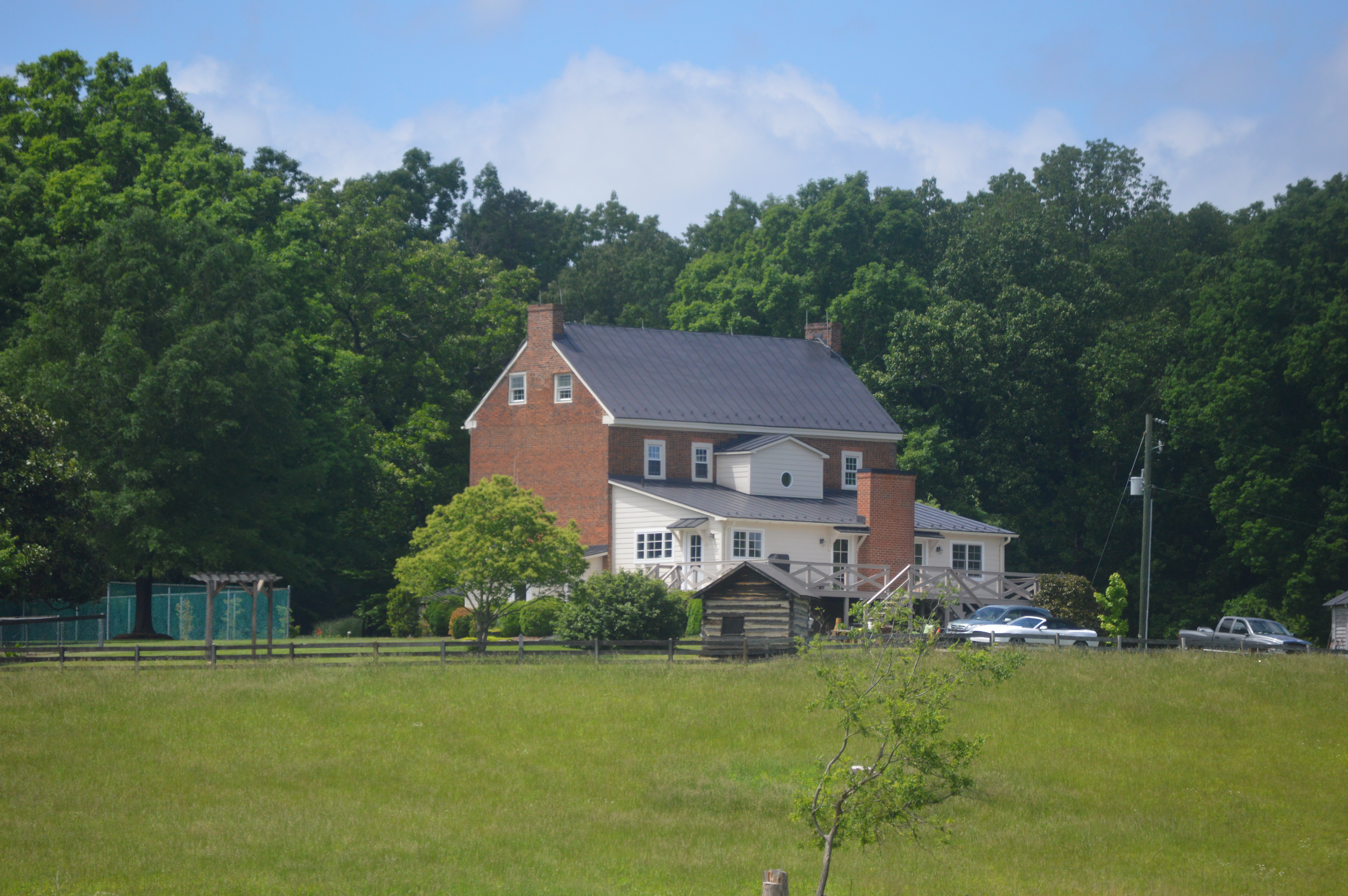 Eastern side of the Burwell-Holland House, located on Jacks Mountain Road southeast of Glade Hill in Franklin County, Virginia, United States. Built in 1798, it is listed on the National Register of Historic Places.